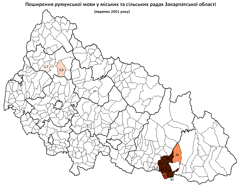 Romanian as native language in Zakarpattya oblast of Ukraine according to 2001 census